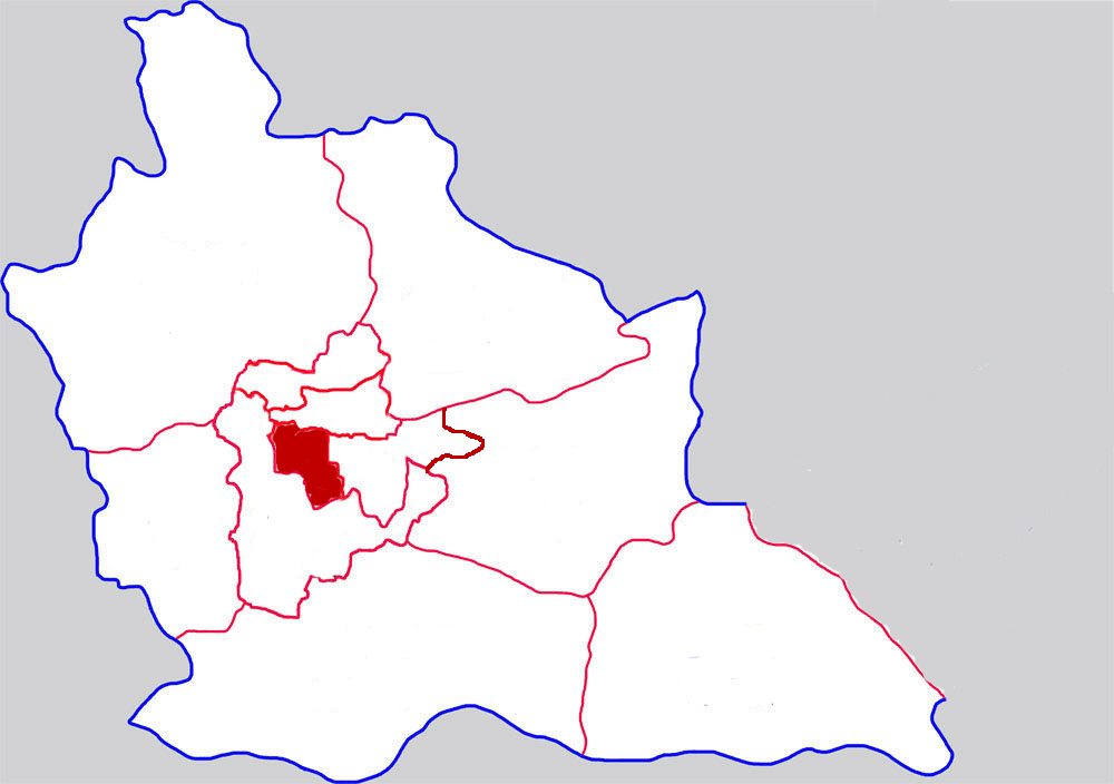 Location of Weibin district in Xinxiang city, China